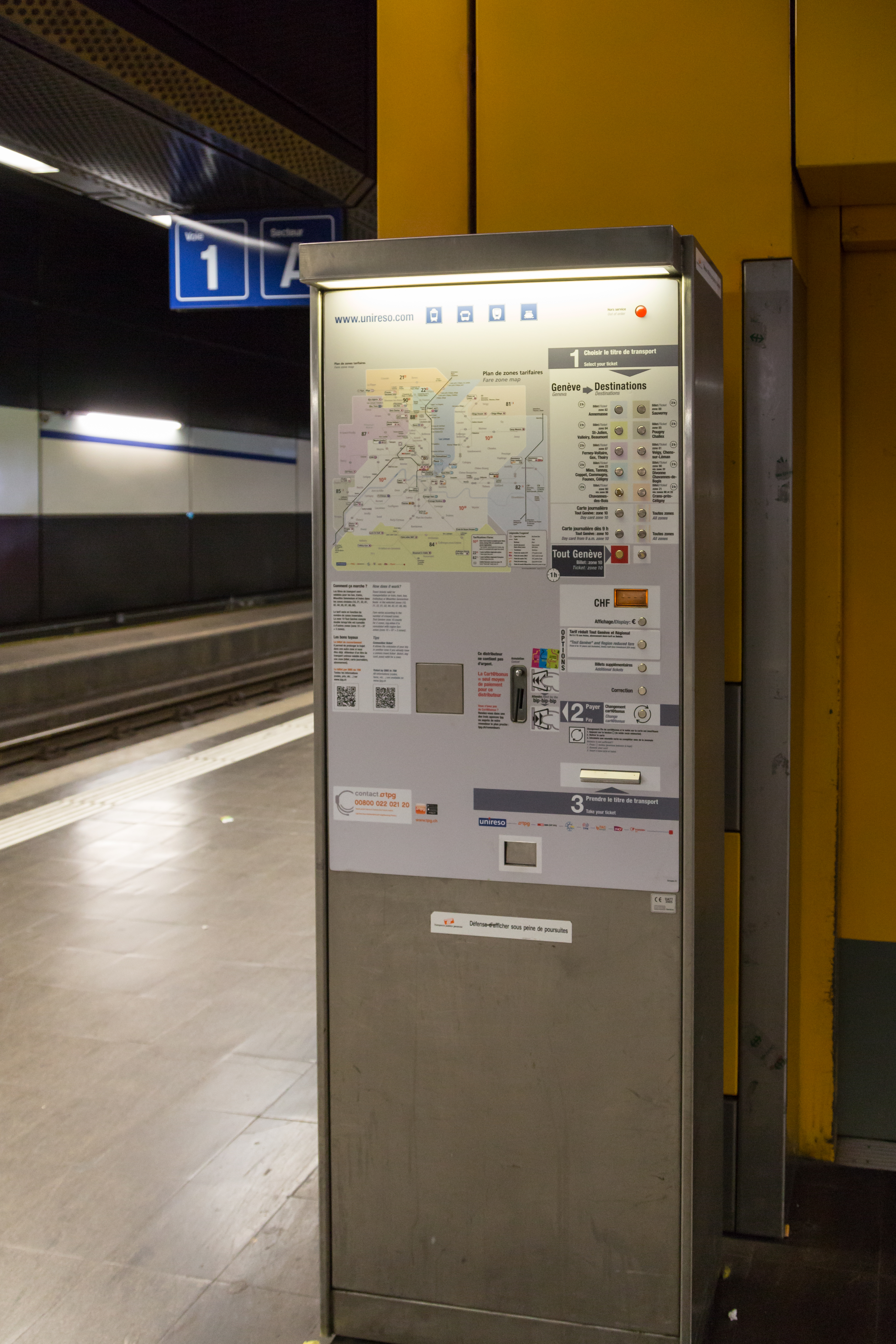 Ticket machine, Geneva Airport railway station